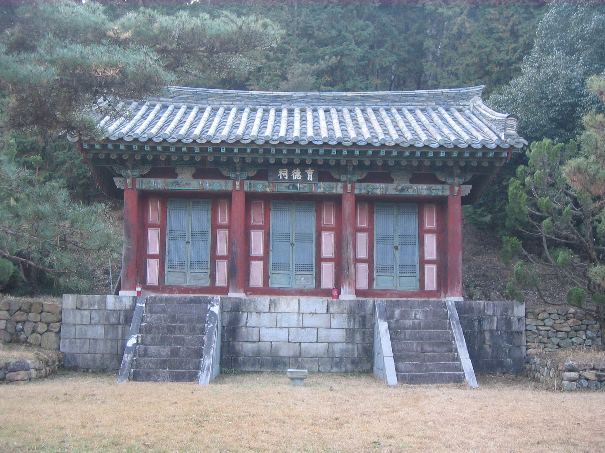 Yukdeoksa (육덕사), the shrine dedicated to Kim Jong-jik, at Yerim Seowon.